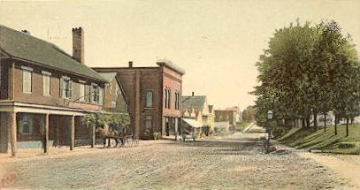 Main Street, Epping, NH; from a 1905 postcard.